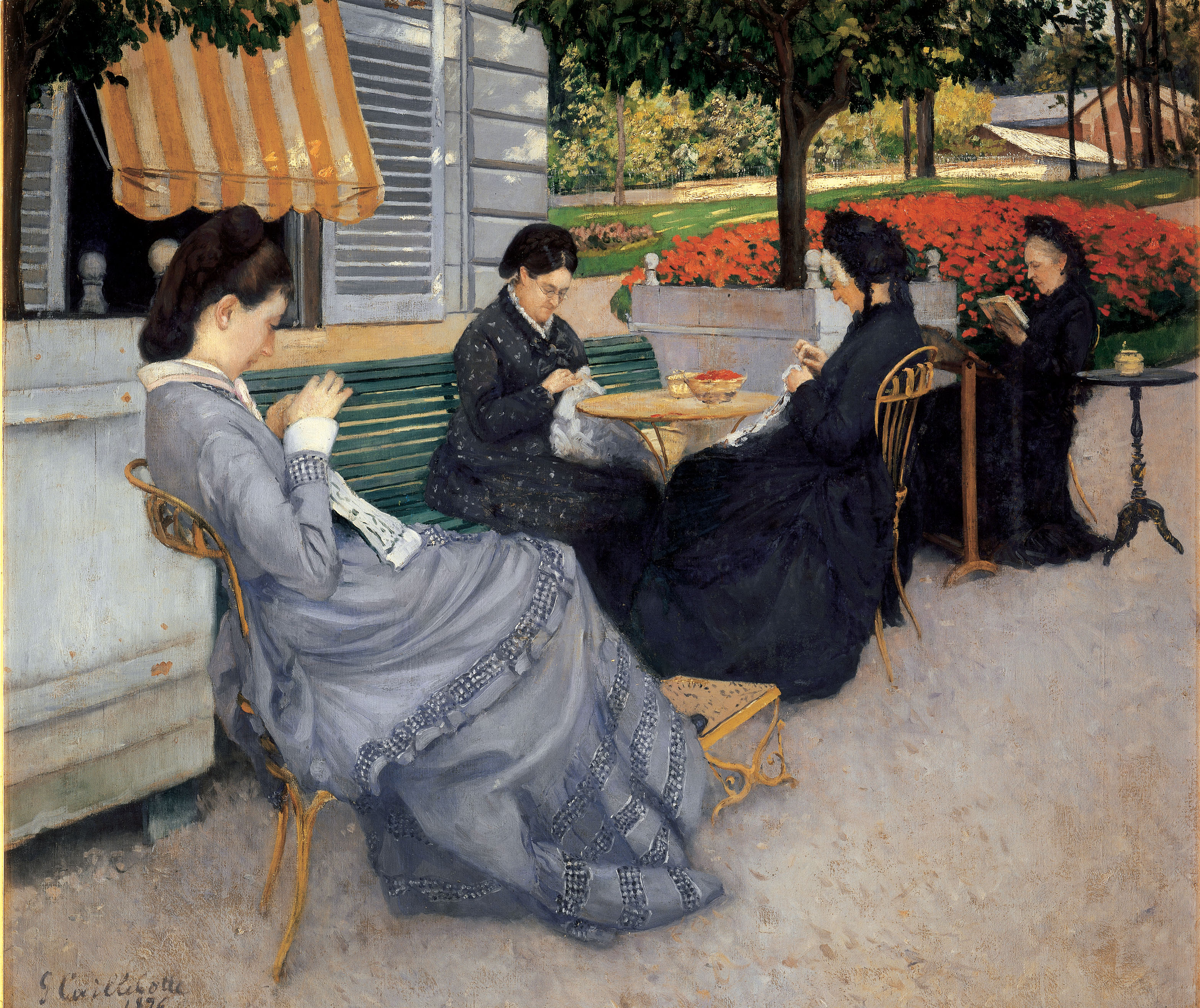 Caillebotte's mother along with his aunt, cousin, and a family friend